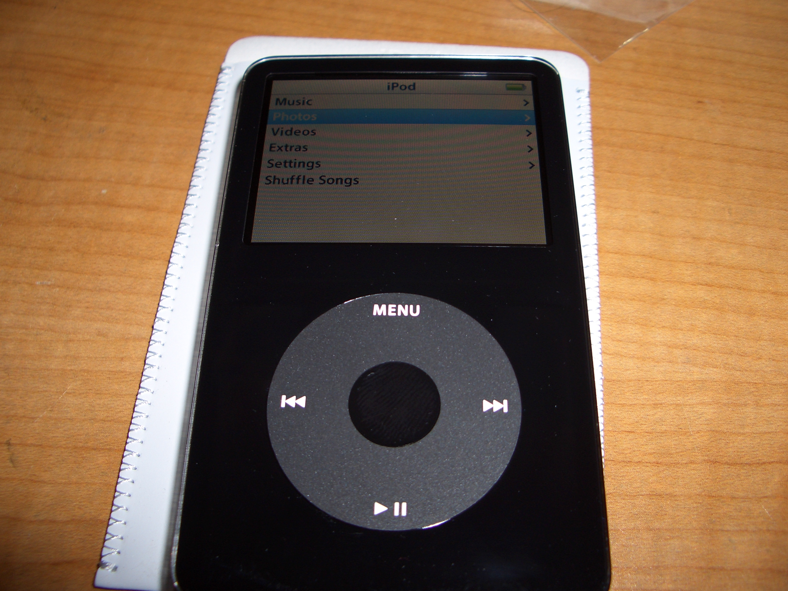 Fifth generation iPod, menu.